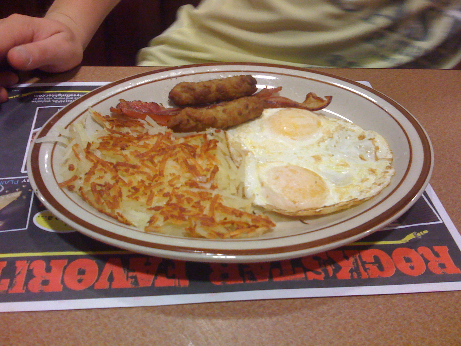 Dennys Breakfast - Sunny side Up Eggs, Hash Brown, Sausage